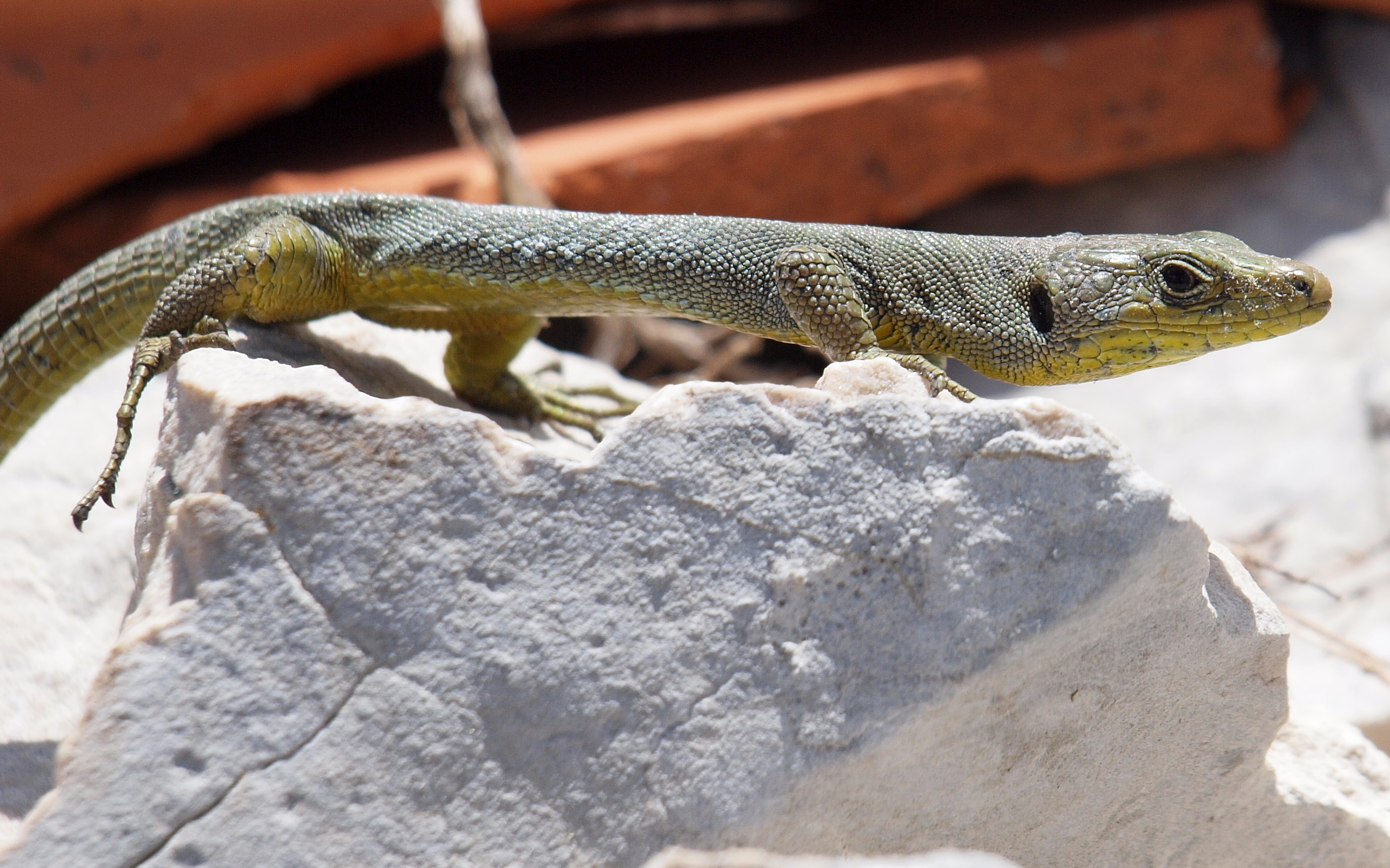 Mosor lizard